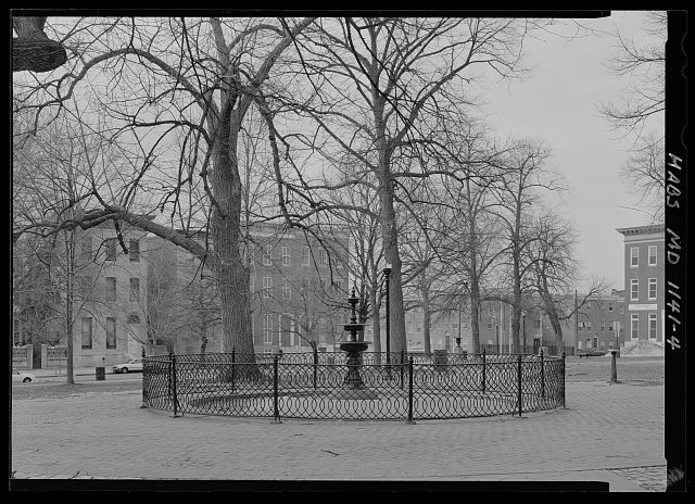 HABS MD-1141-4 is View in park, detail showing fountain (intersection of West Lafayette and North Carrollton in background) Other information Historic American Buildings survey